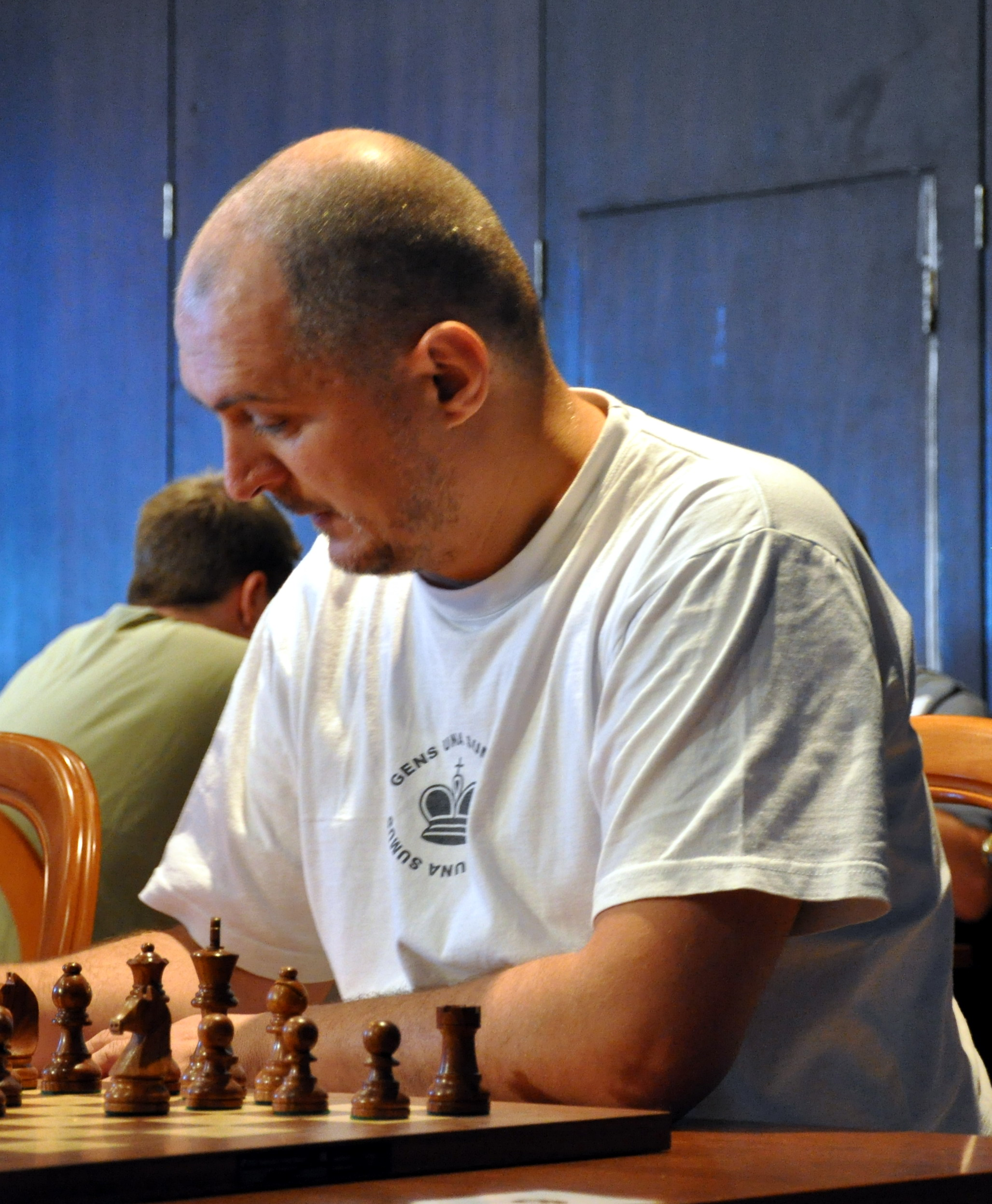 GM Sinisa Drazic, Pula Open 2011.